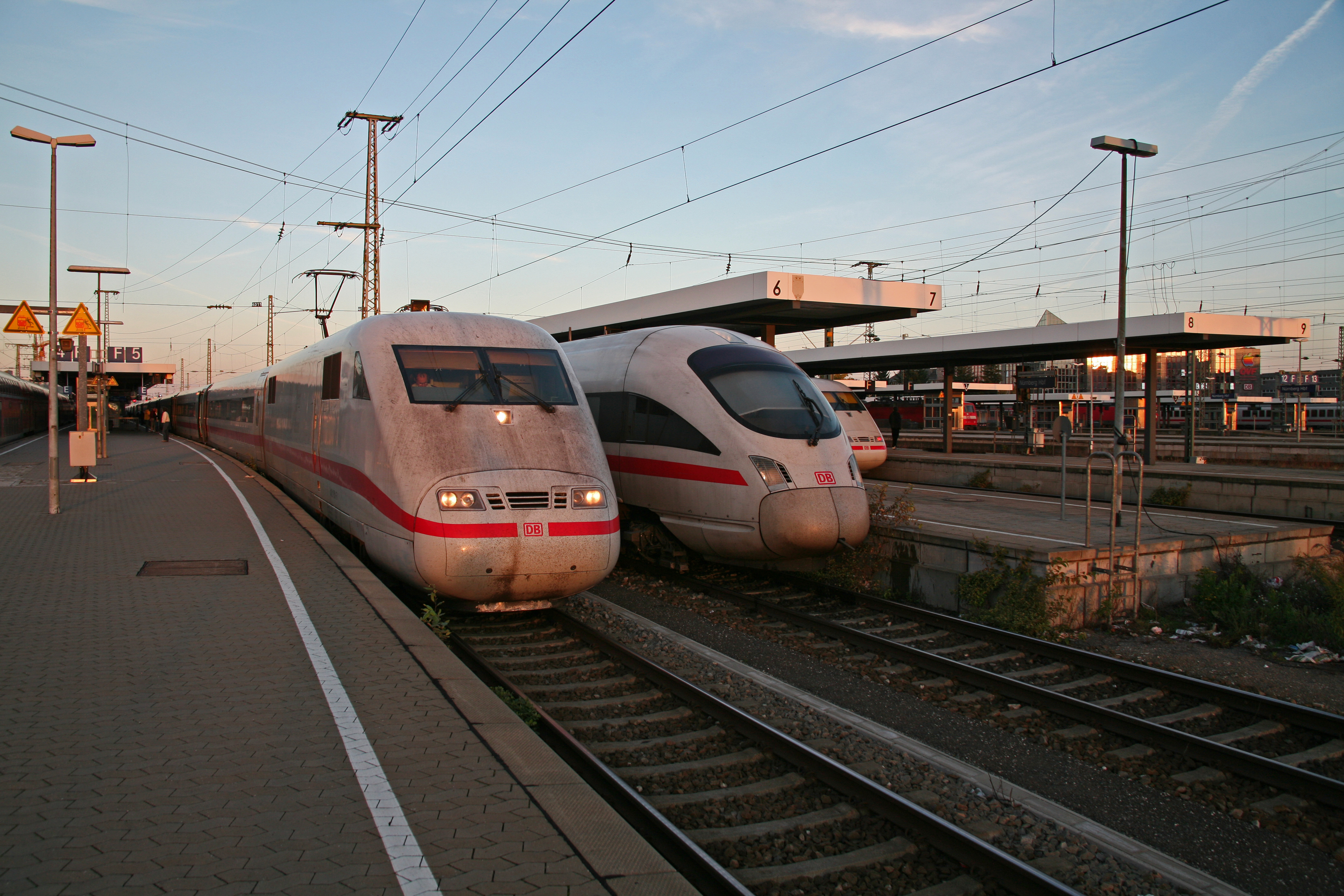 ICE train at Nürnberg Hbf, Germany